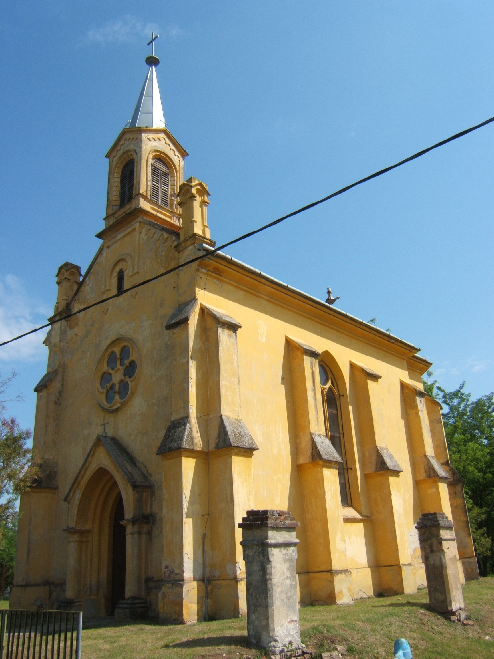 Saint Joseph Calasantius Chapel, Rinyabesenyő This is a photo of a monument in Hungary. Identifier: 8059